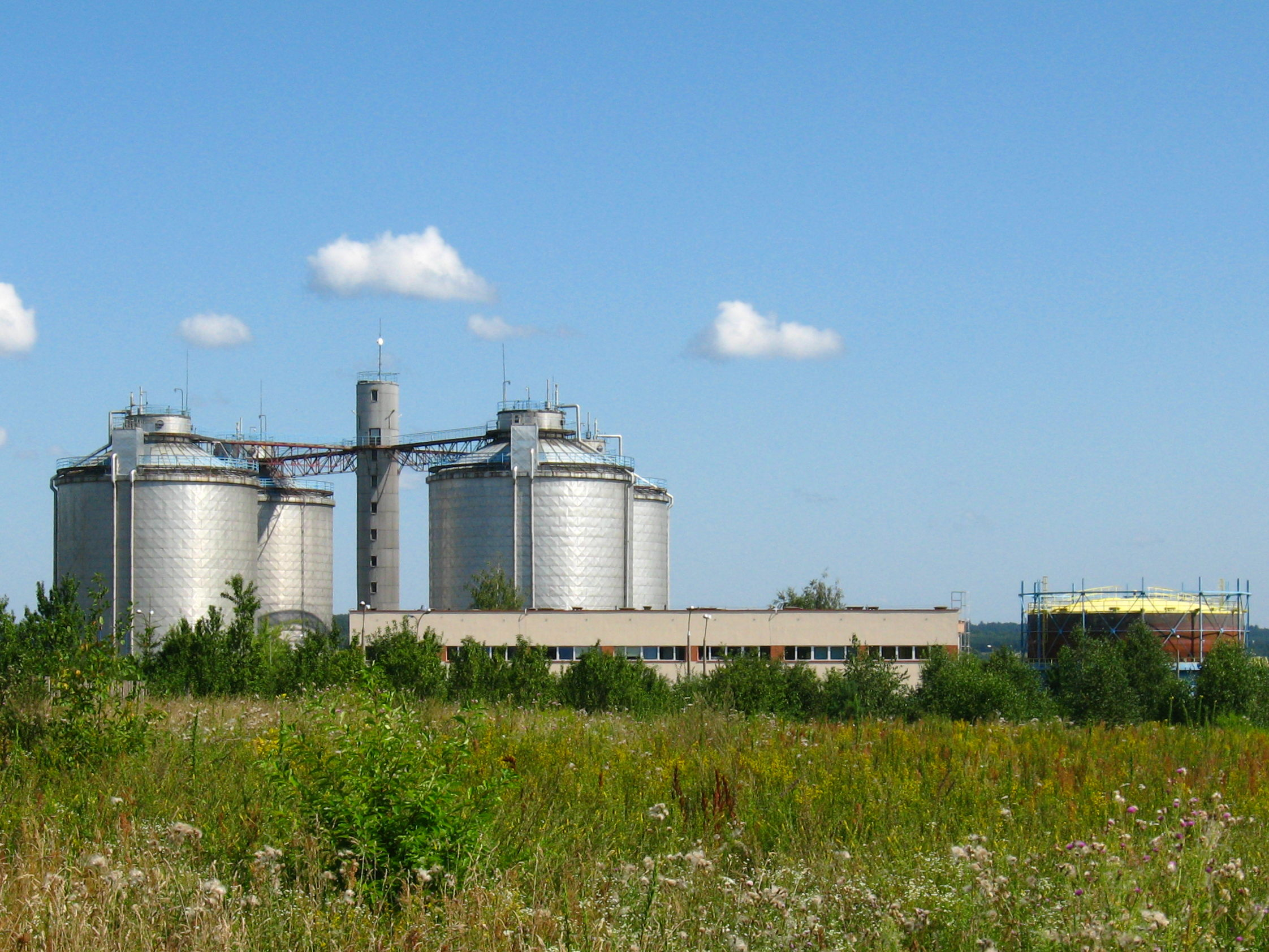 Wodociągi Białostockie Sp. z o.o. Sewage treatment plant — Zawady, Bialystok (Produkcyjna 102)